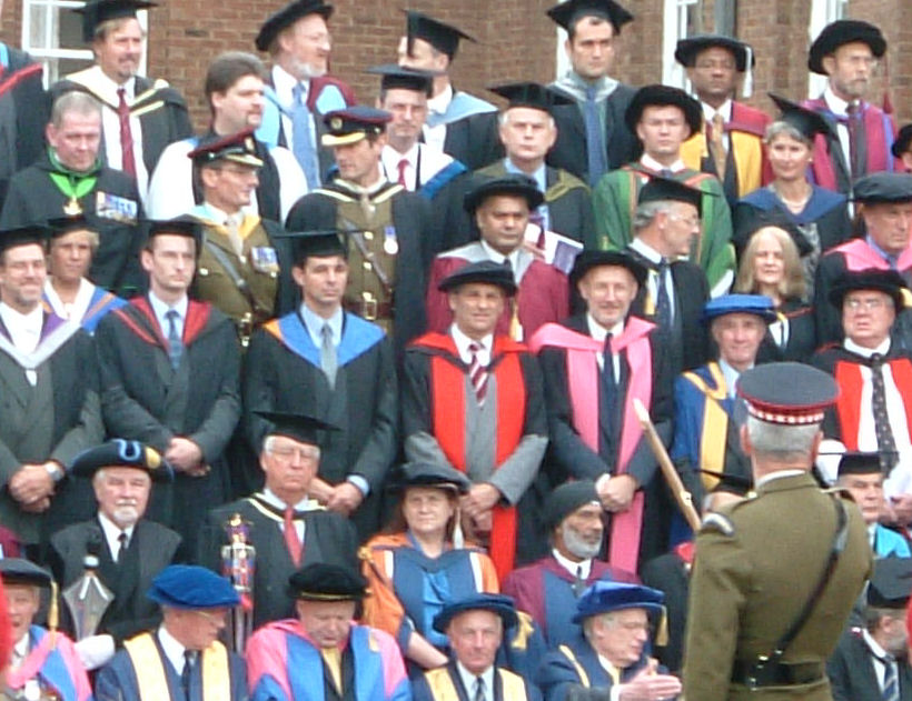 Cranfield Graduation Shrivenham 2003 Official Party